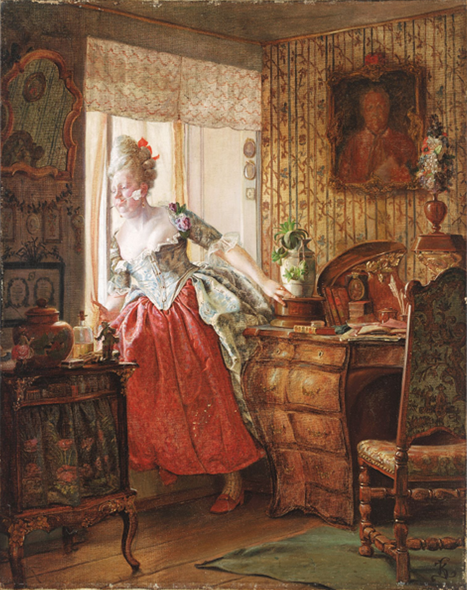 Dorothea Biehl (1731-1788) had been dead for almost a hundred years when Zahrtmann featured her in this painting. The history painting shows the well-known author and playwright in her apartment at Charlottenborg, watching life in the streets of Copenhagen.